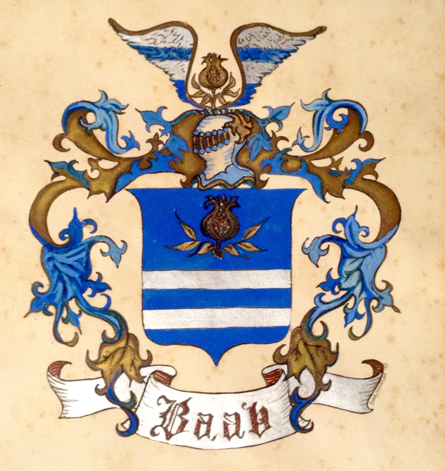 The Baab family Crest